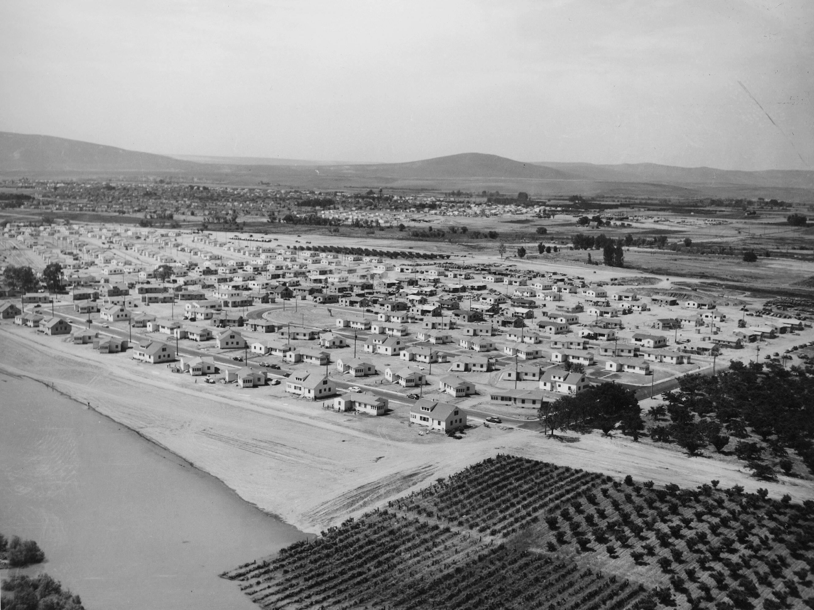 The government town of Richland, Washington in the early days of the Hanford site